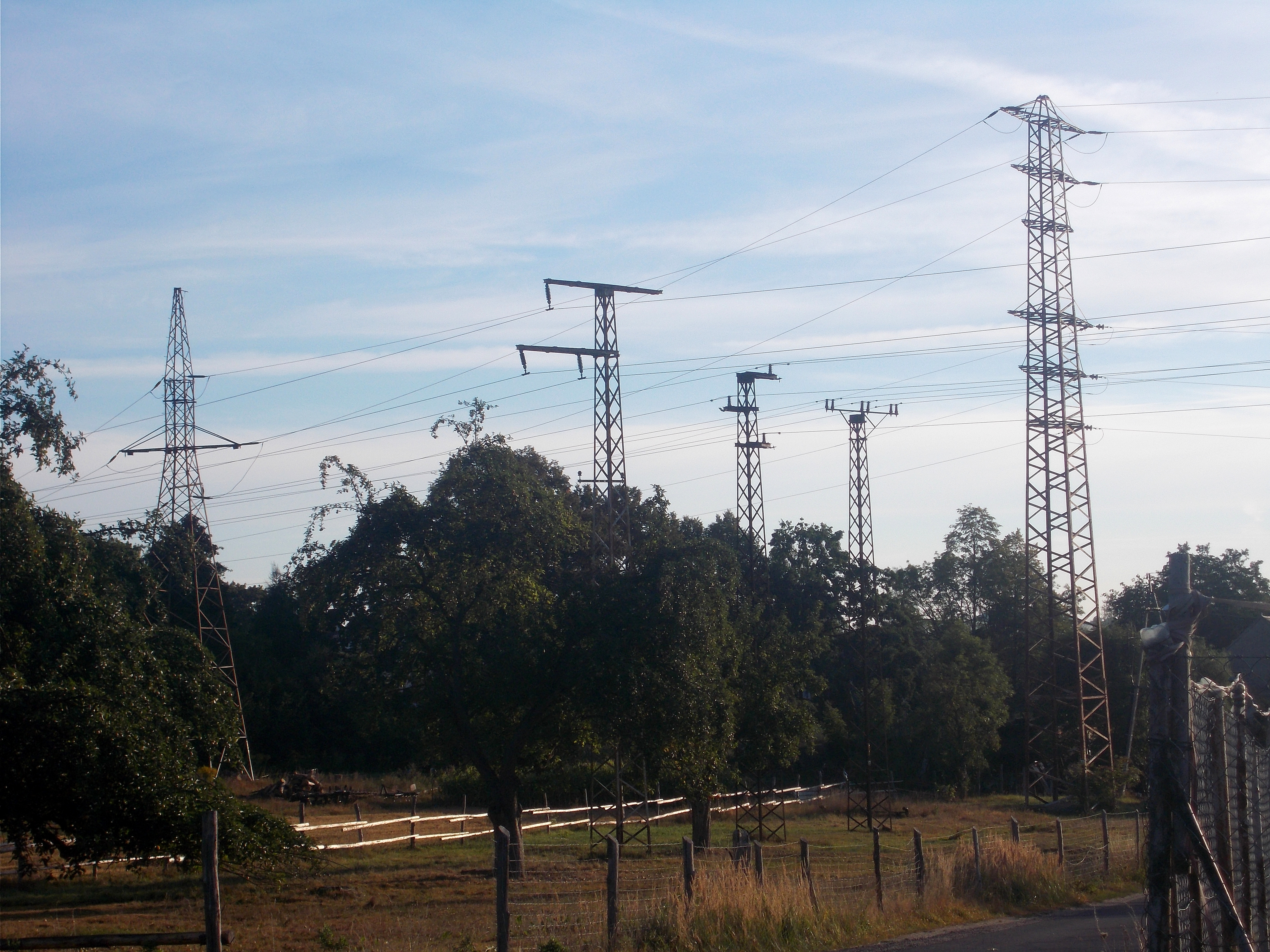 Old medium-voltage towers near Luban, Poland